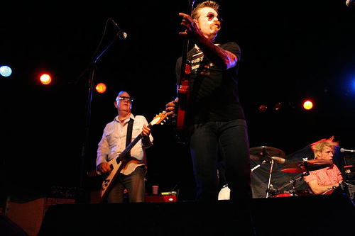 Eagles of Death Metal live at The Glass House (Pomona, CA)